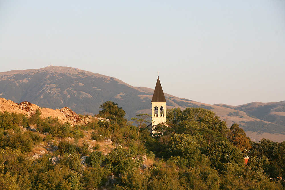 Church in Vidoši